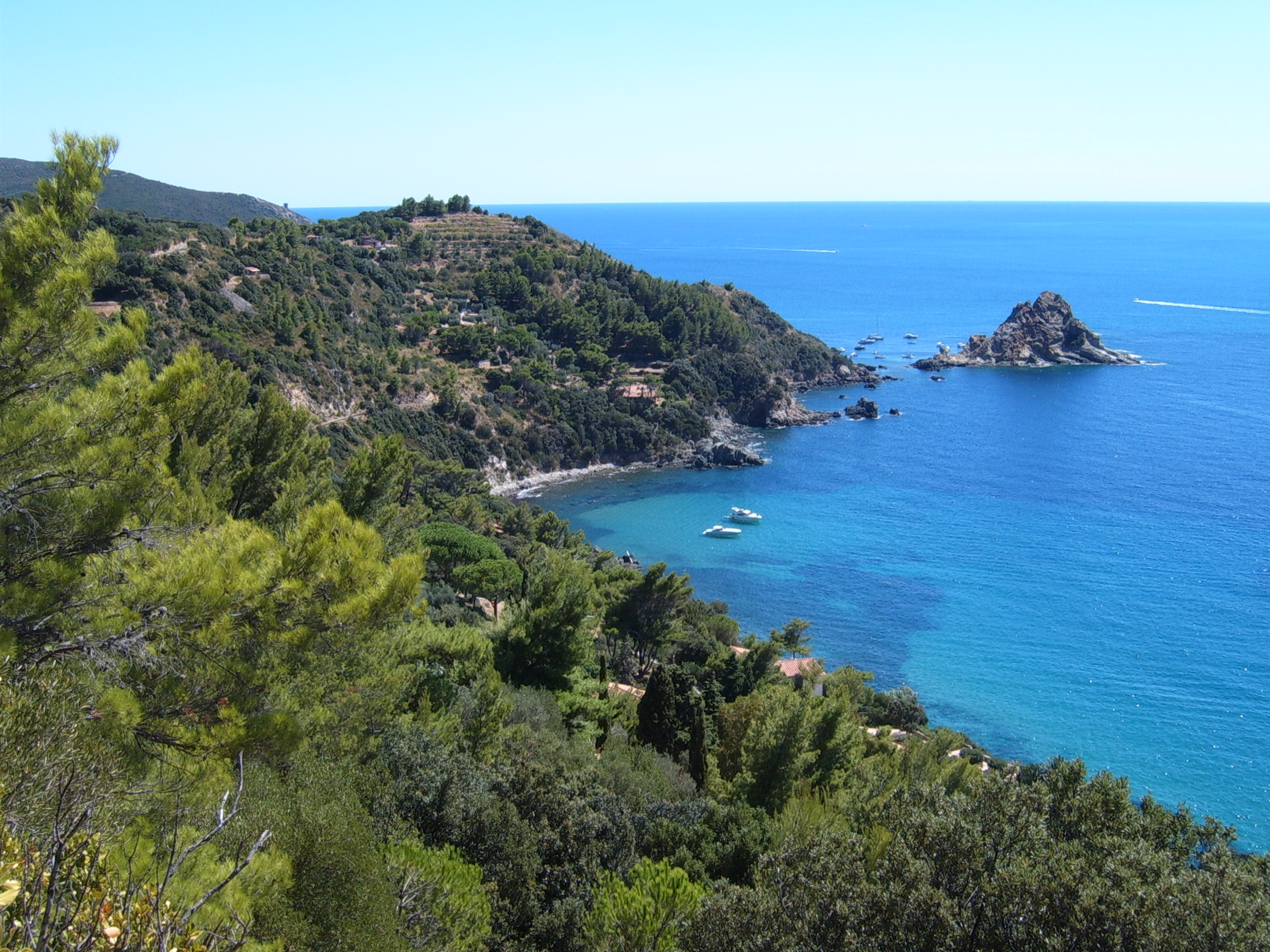 Monte Argentario with Isola Rossa, Tuscany (Italy)